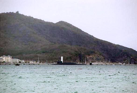 Type 094 SSBN PLA Navy